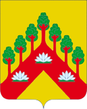 Coat of arms of Krasnostrelskoye municipality, Temriuk raion, Krasnodar krai, Russia.